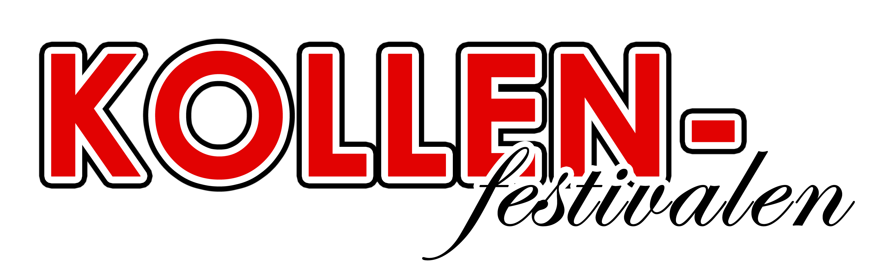 The logo for the Norwegian music festival Kollenfestivalen.